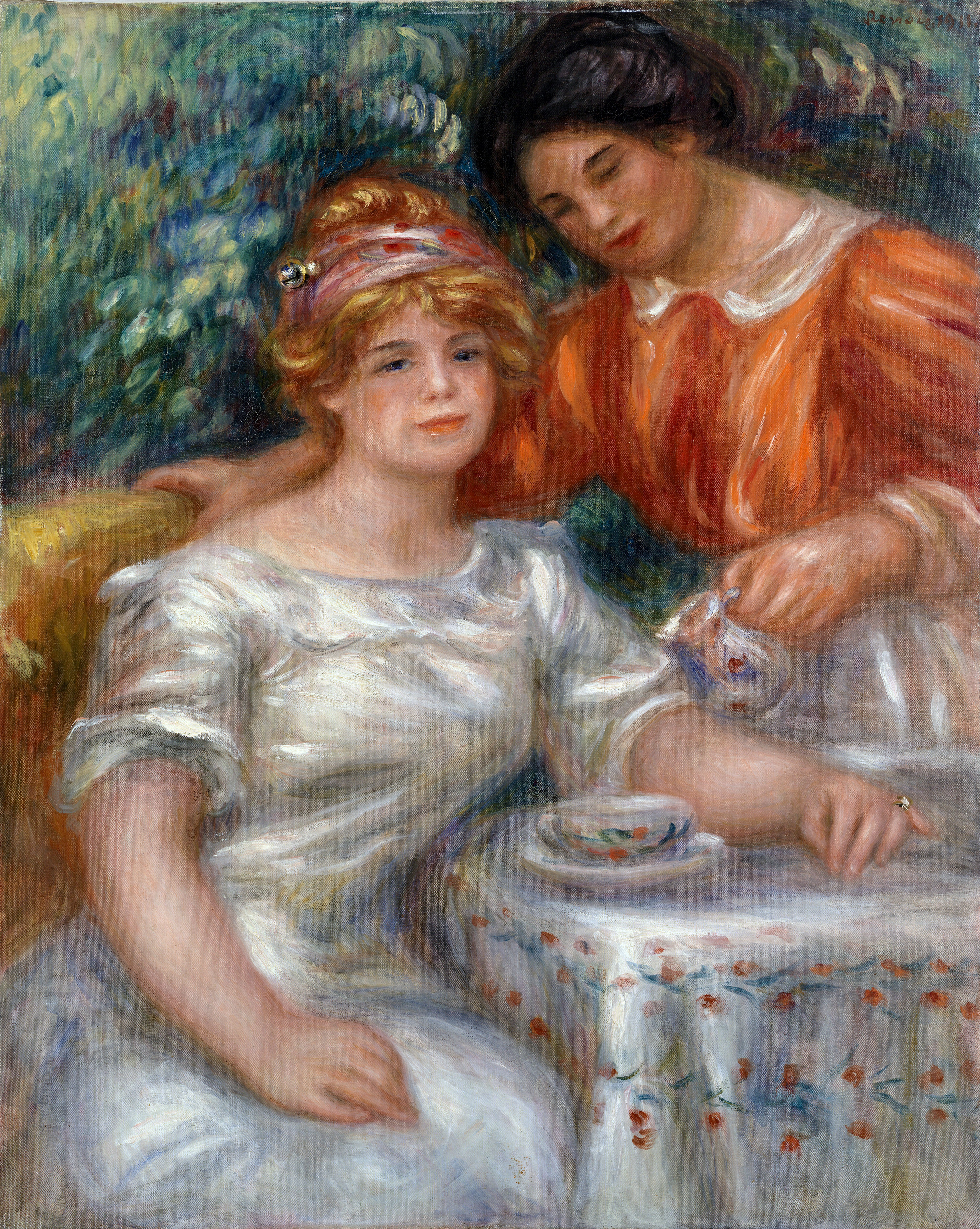 Amélie Diéterle is a French actress born in Strasbourg on 20 February 1871 and died in Cannes on 20 January 1941. She was legitimated in Paris in 1892 by Captain Louis Laurent, Knight of the Legion of Honor. Amélie Diéterle married in Vallauris on 16 June 1930 with André Simon (1877-1965). Amélie Diéterle plays mainly at the Théâtre des Variétés in Paris during the Belle Époque.